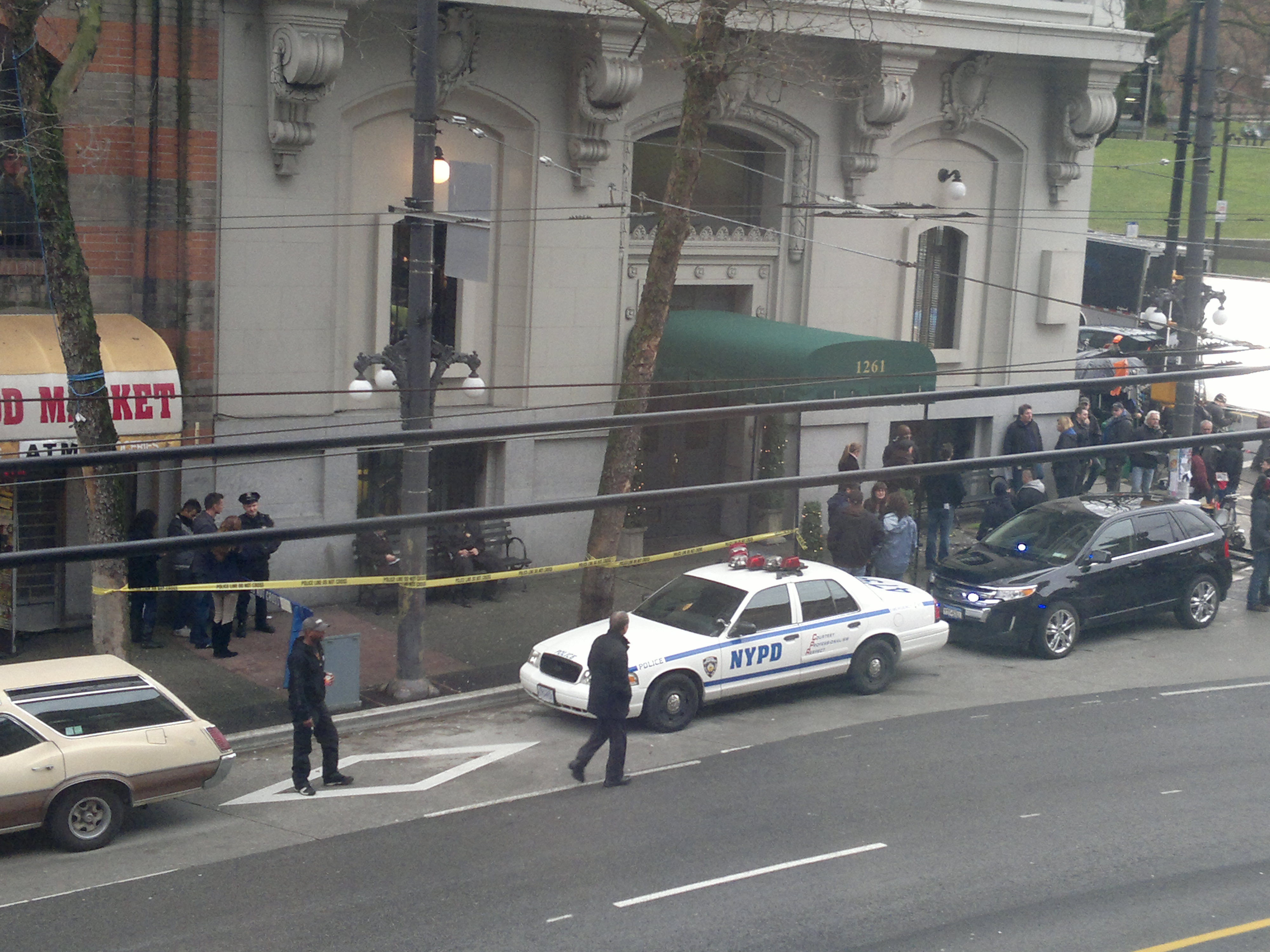 Is that Anna Torv filming Fringe? - 121320101676